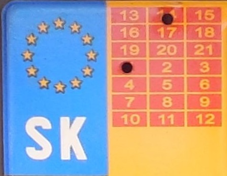 Detail of Slovakian license plate for export